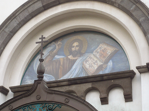 Tokyo Resurrection Cathedral